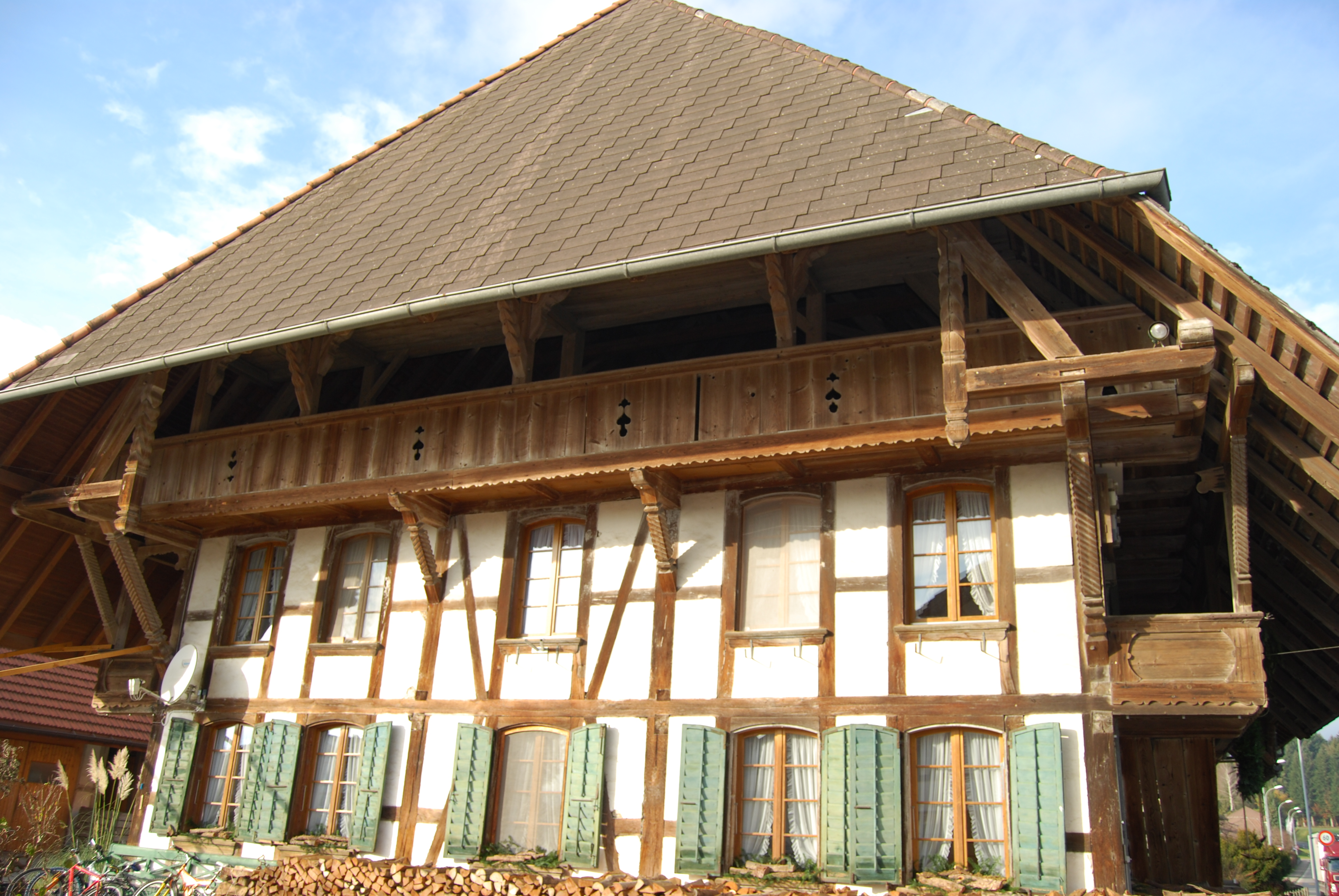 Röthenbach bei Herzogenbuchsee, municipality of Heimenhausen, canton of Bern, Switzerland